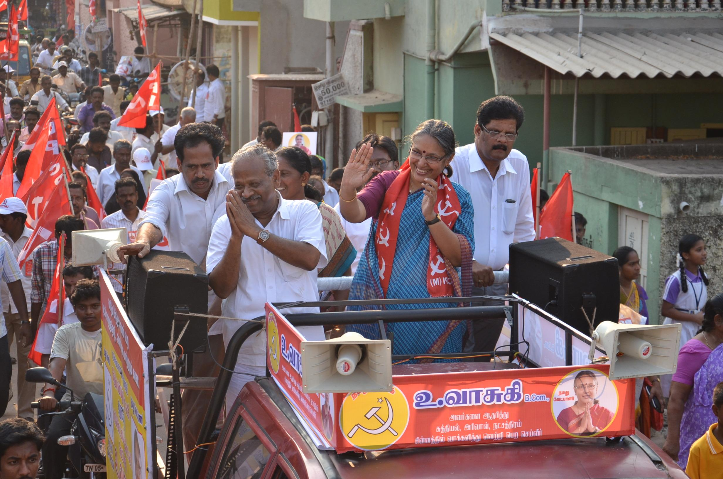 CPI(M) North Chennai Candidate U.Vasuki Election Campaign